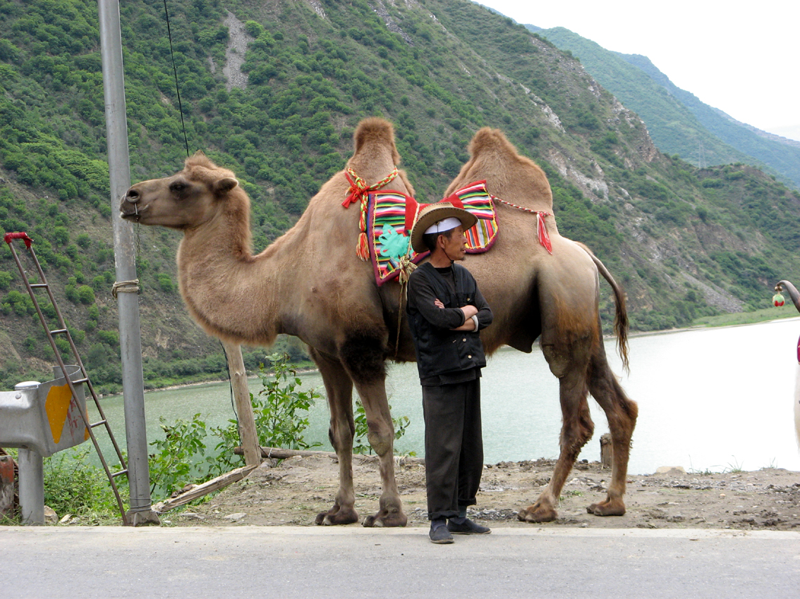 Camel with man, in Sichuan, China Photo by Dice, 2006.06.22